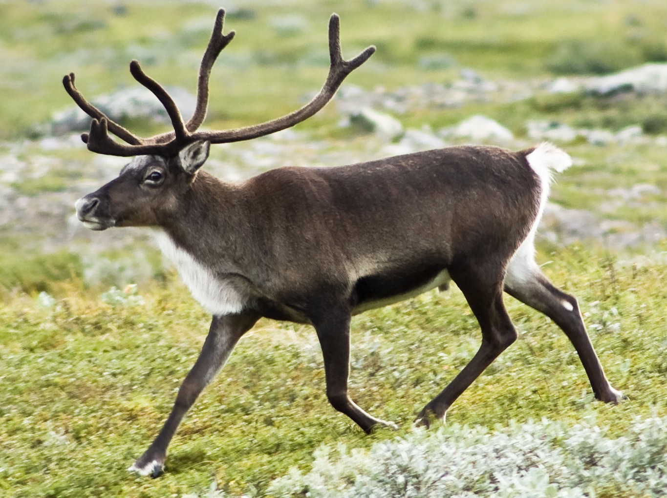 Strolling reindeer (Rangifer tarandus) in the Kebnekaise valley, Lappland, Sweden.